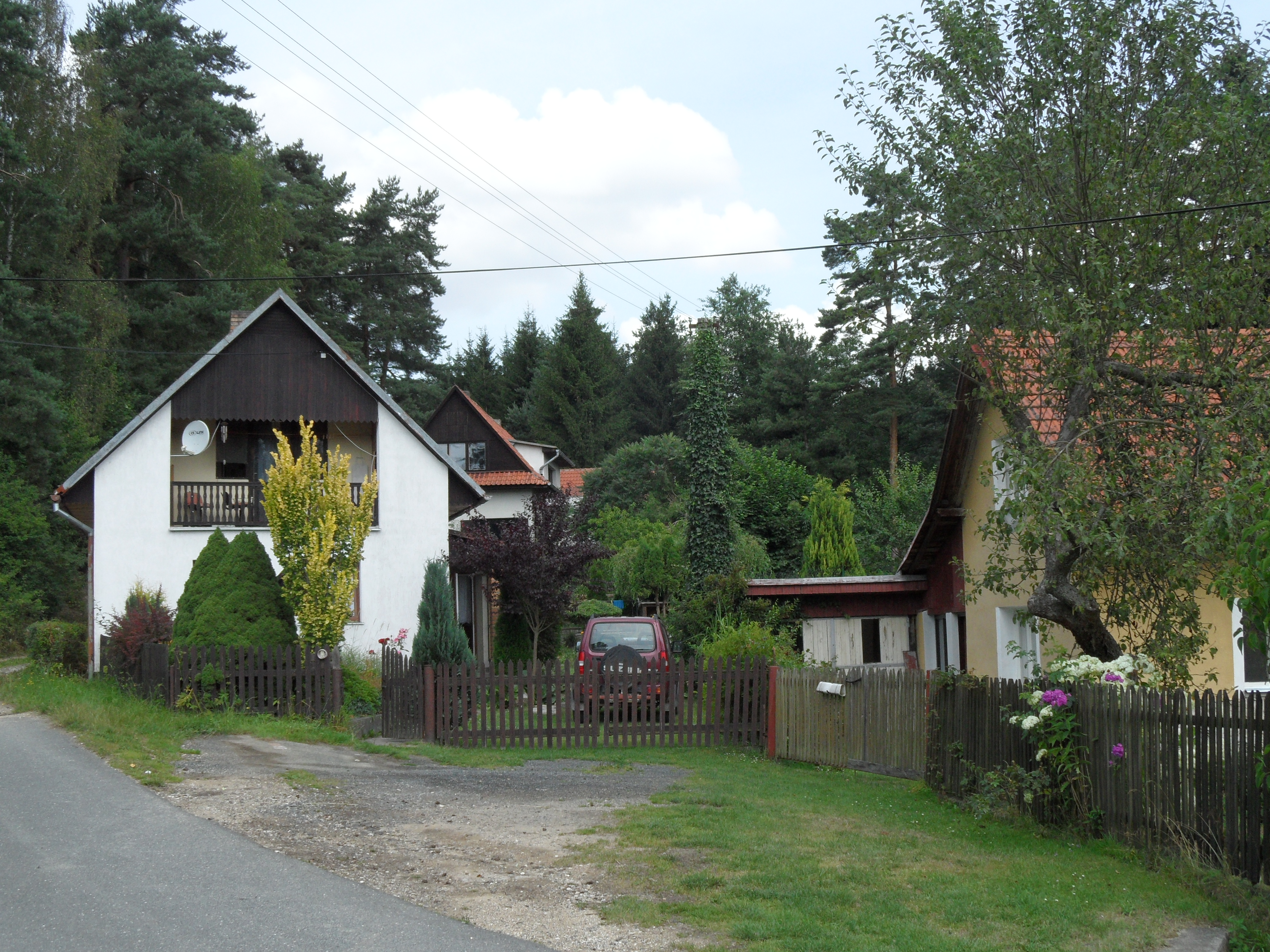 Malá_Skalice_(Zbraslavice)_B. Village Houses, Kutná Hora District, the Czech Republic.